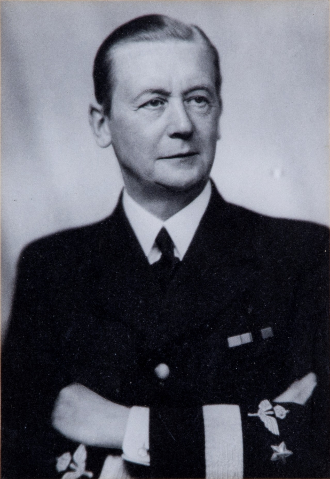 Portrait photography of Torsten Friis, Chief of the Air Force 1934-1942. Signed, framed photo. Dedication to Peter Koch.